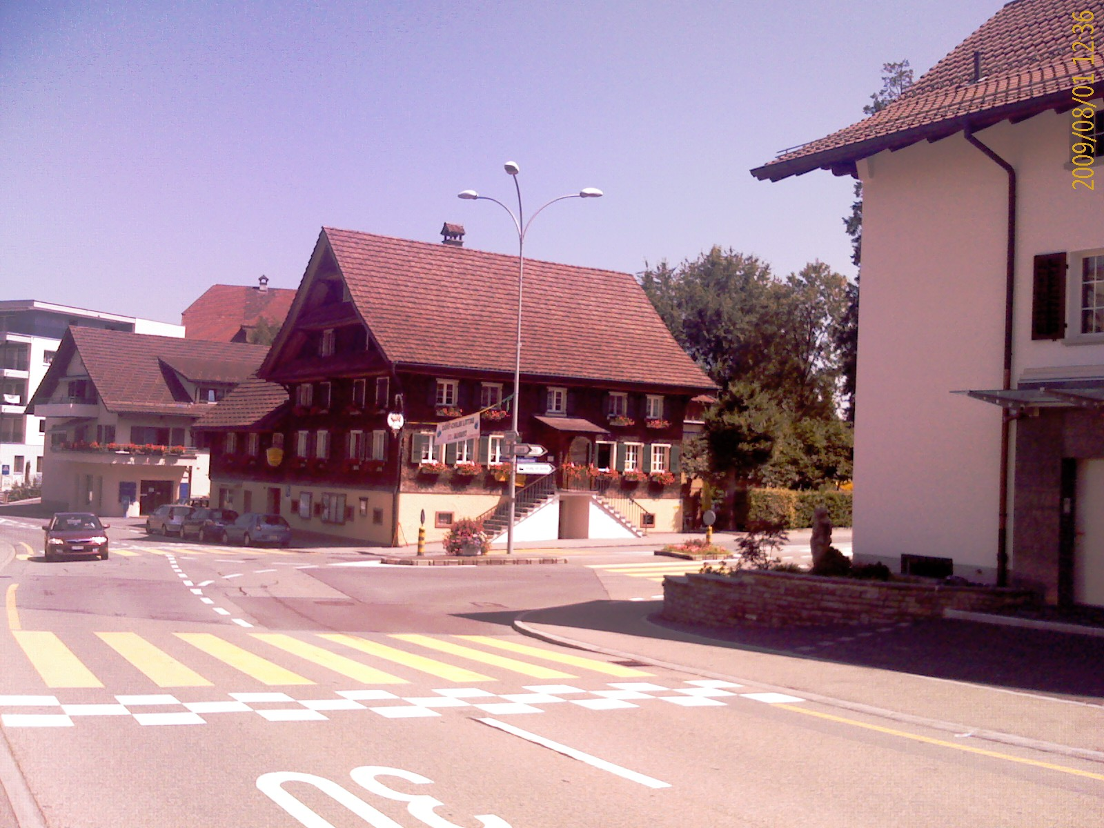 Village centre Littau, canton of Luzern, SwitzerlandEsperanto: Vilaĝcentro de Littau, Kantono Lucerno, Svislando